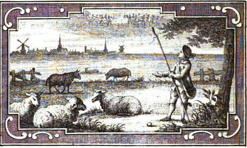 UFO near Warmsen (Germany) at 9 april 1647